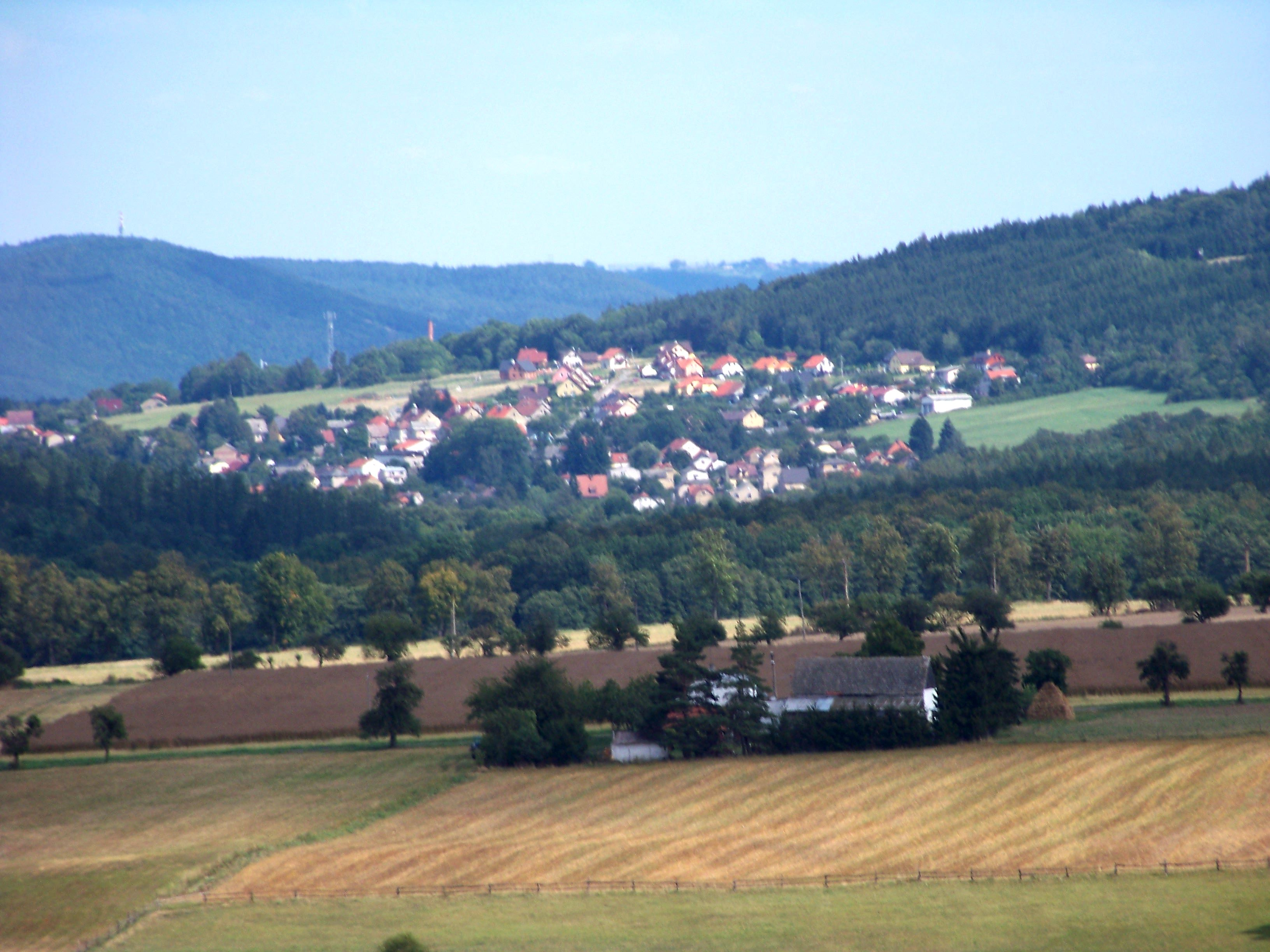 Rakovník District and Beroun District, Central Bohemian Region, the Czech Republic. A views of village of Nový Jáchymov from Špička Hill. - Google Maps - Google Earth